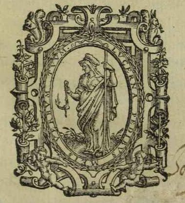 Perna's mark